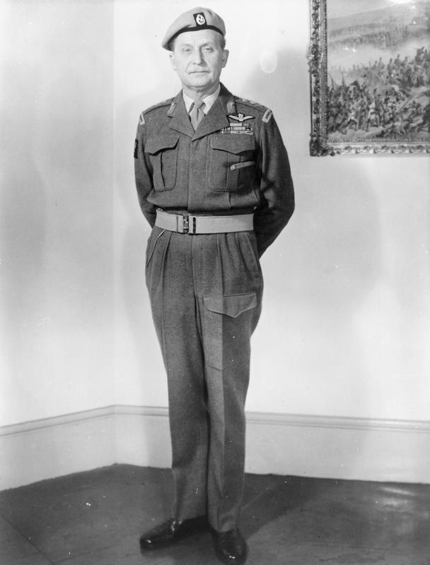 The Suez Operation October - December 1956 Personalities: Lieutenant General Sir Hugh Stockwell, Commander of the Anglo French Land Forces.